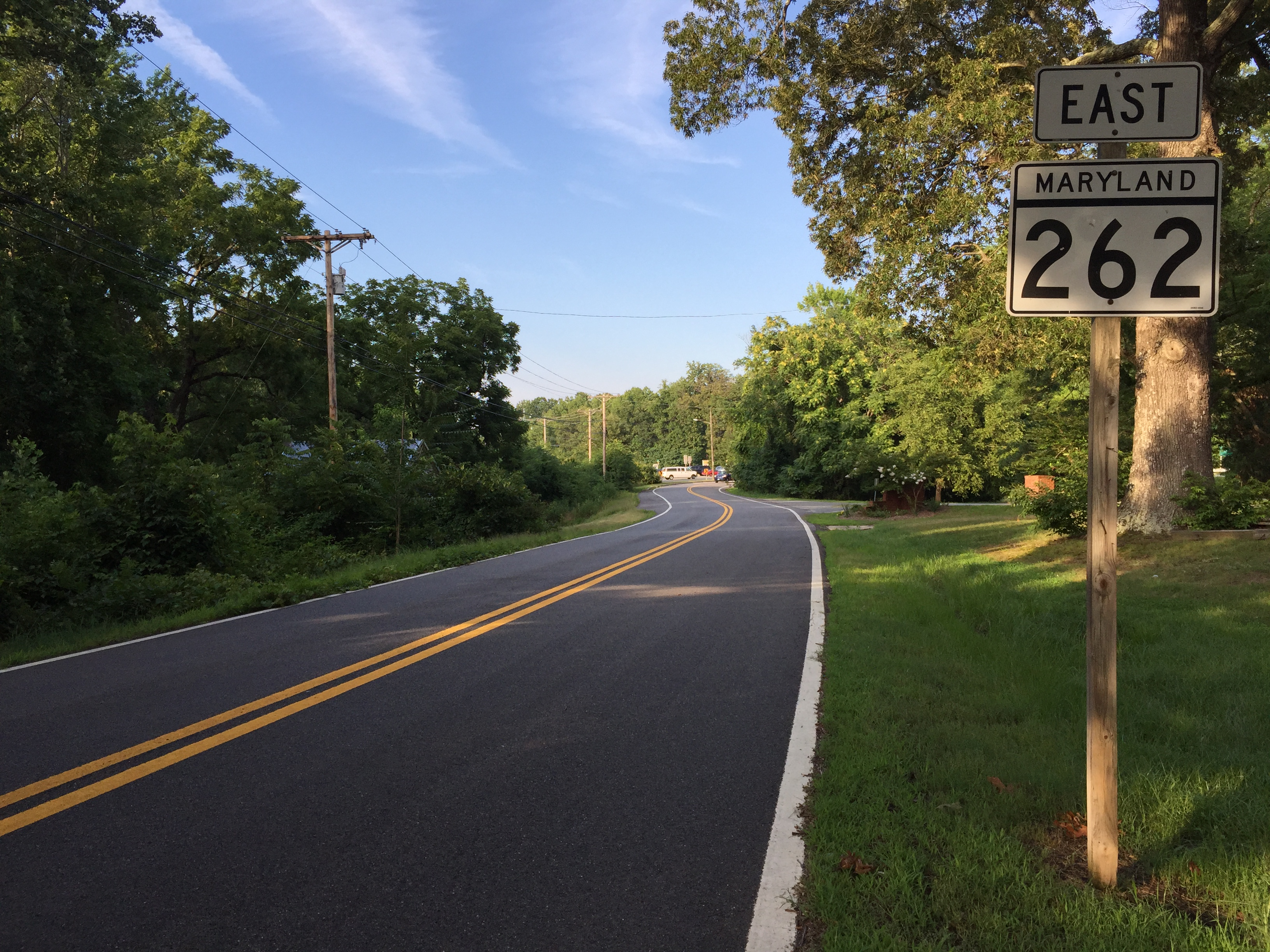 View east along Maryland State Route 262 (Lower Marlboro Road) just east of Maryland State Route 4 (Southern Maryland Boulevard) in Sunderland, Calvert County, Maryland